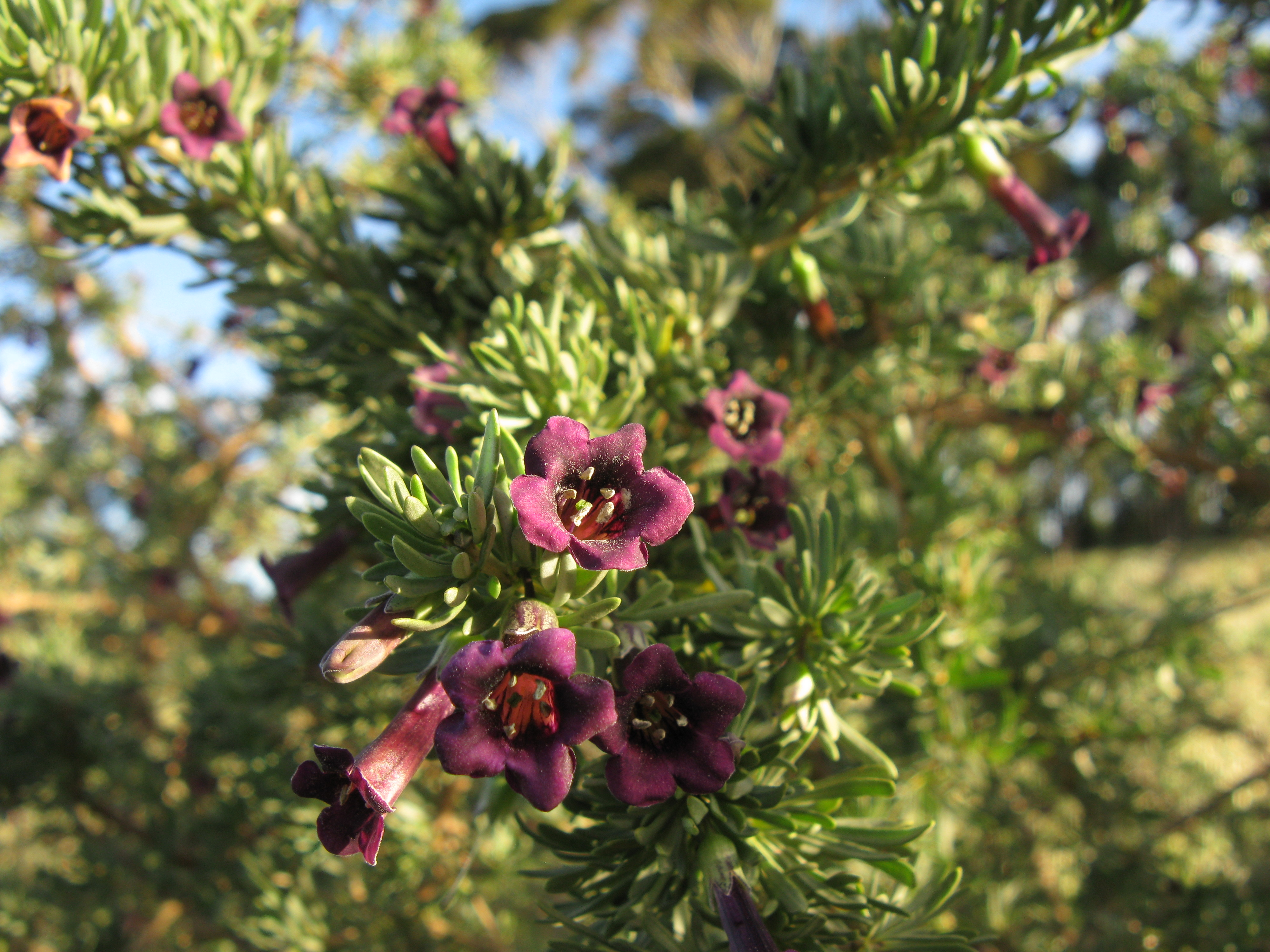 Kraal honey thorn in flower, photographed in veld near Paarl, Western Cape, South Africa